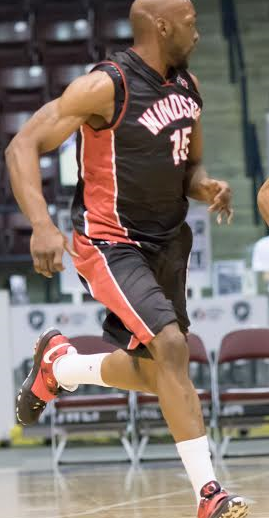 Windsor Express player Quinnel Brown defends an opponent in 2015.